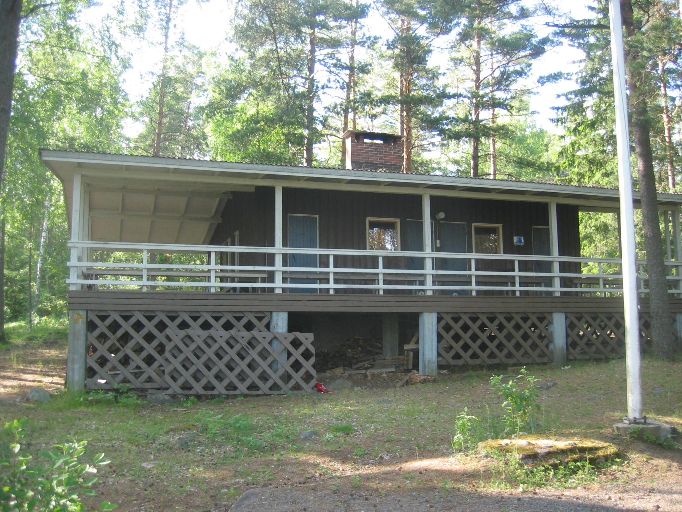 The Aarlahti beach public sauna in Mietoinen, Finland.